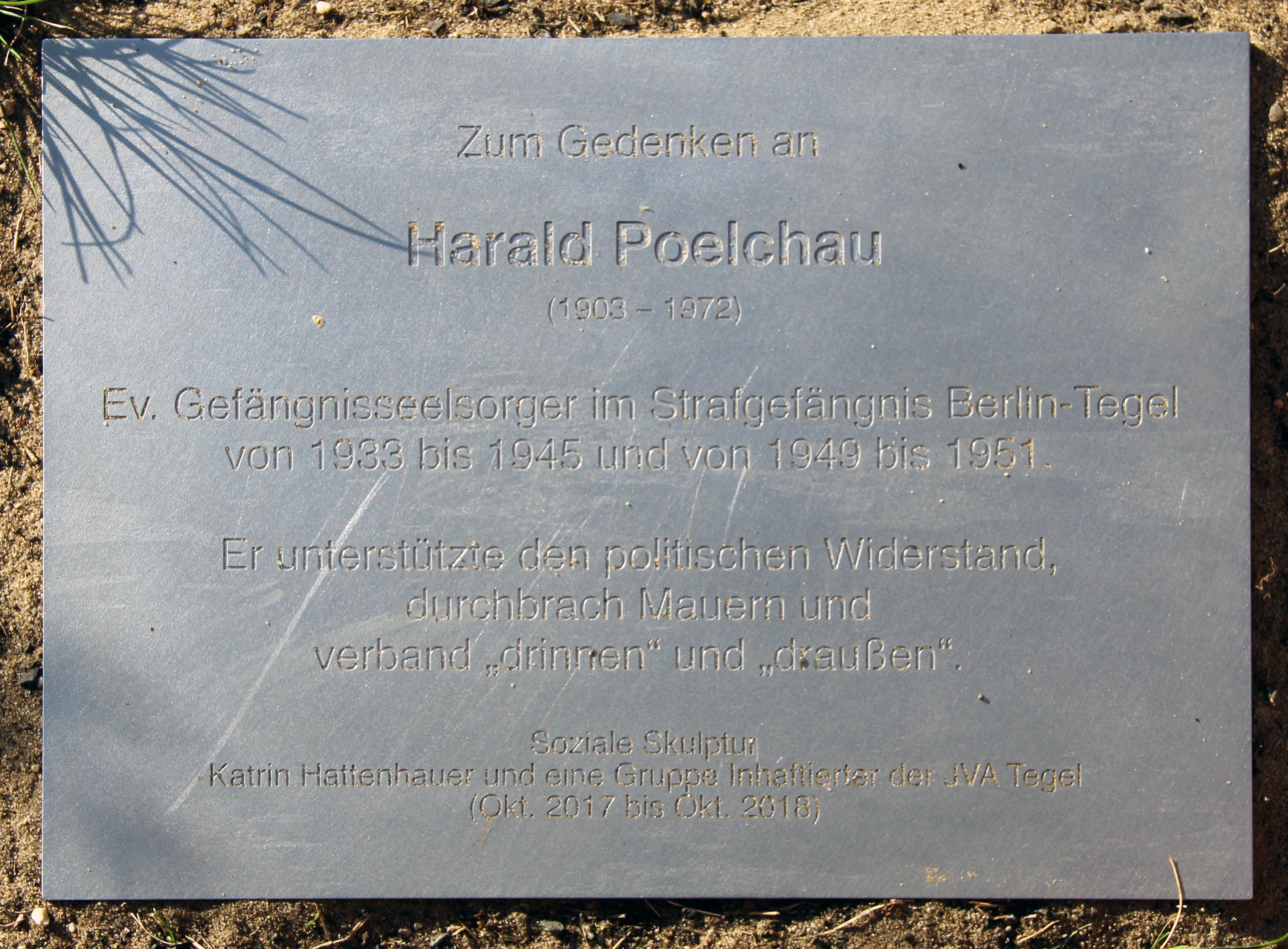 Memorial plaque, Harald Poelchau, Seidelstraße 39, Berlin-Tegel, Deutschland